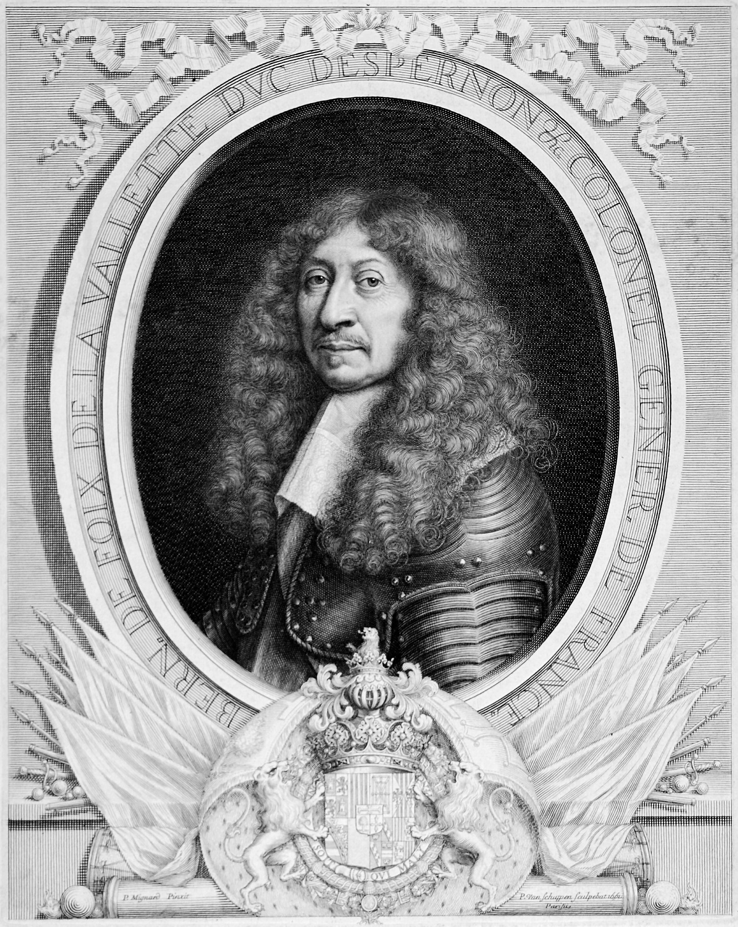 Engraved portrait of Bernard de Nogaret de La Valette, Duke of Épernon